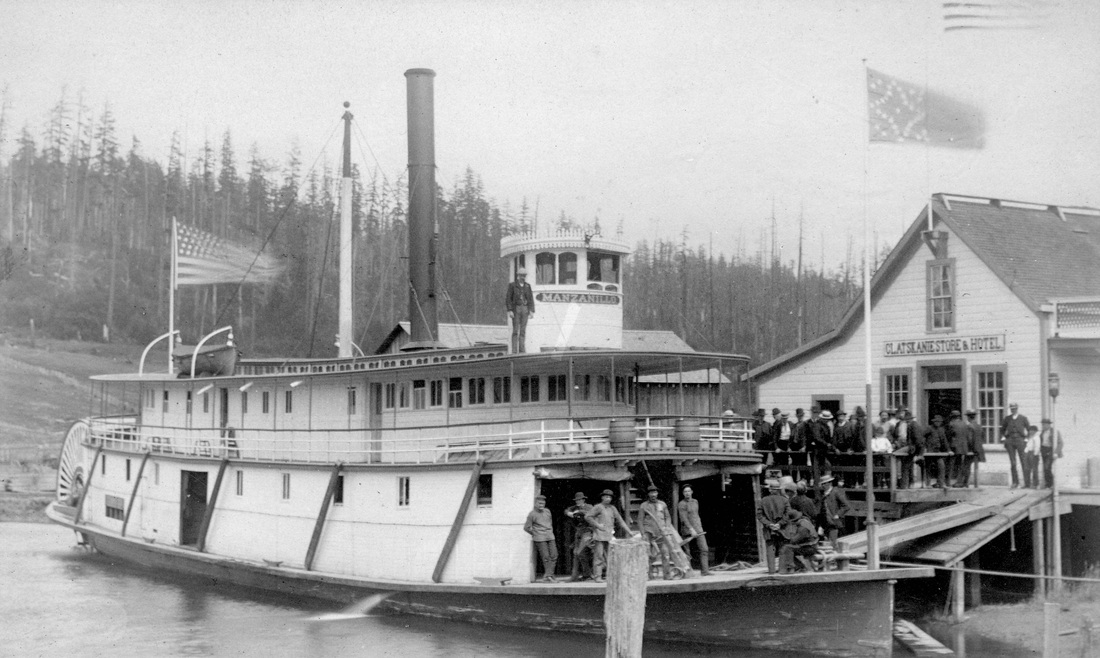 Sternwheel steamboat Manzanillo at Clatskanie, Oregon circa 1885